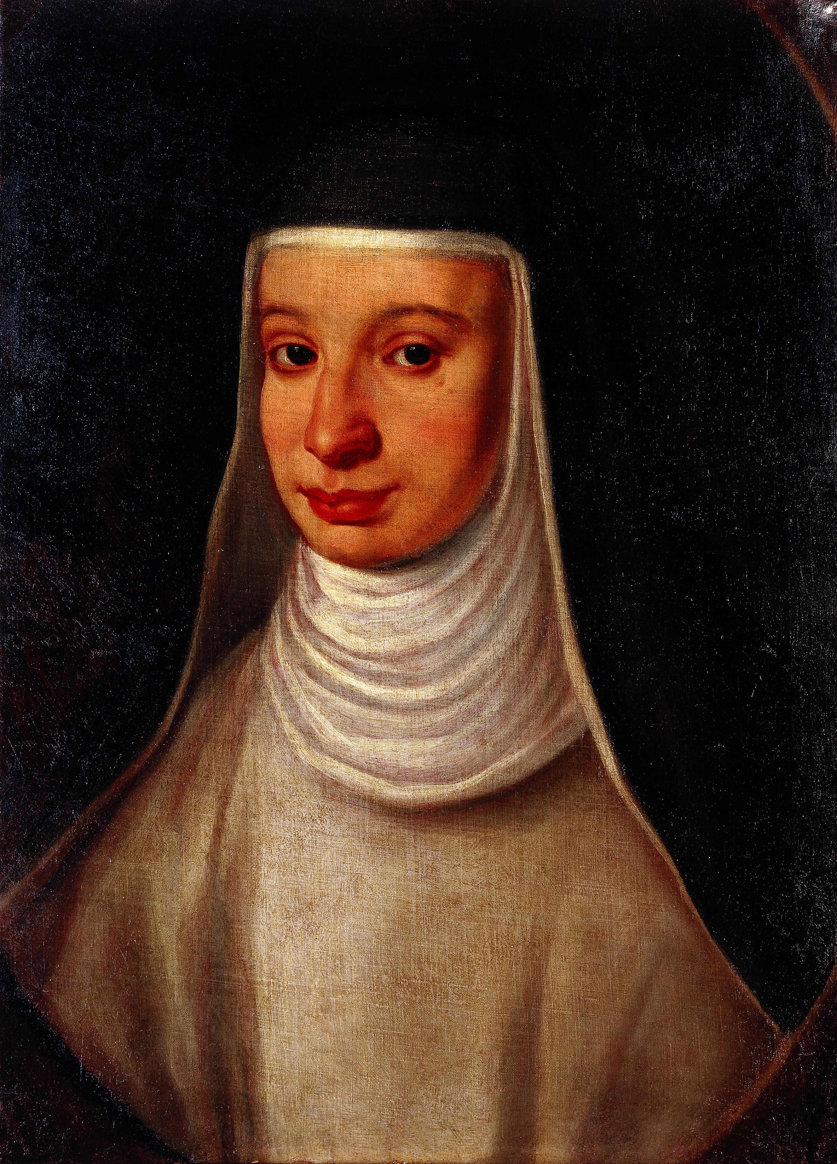 A nun, traditionally identified as Suor Maria Celeste, daughter of Galileo Galilei. Oil painting by an unidentified painter. Iconographic Collections Keywords: Portraits; Maria Celeste; catalogue no. 45565i; suor maria celeste